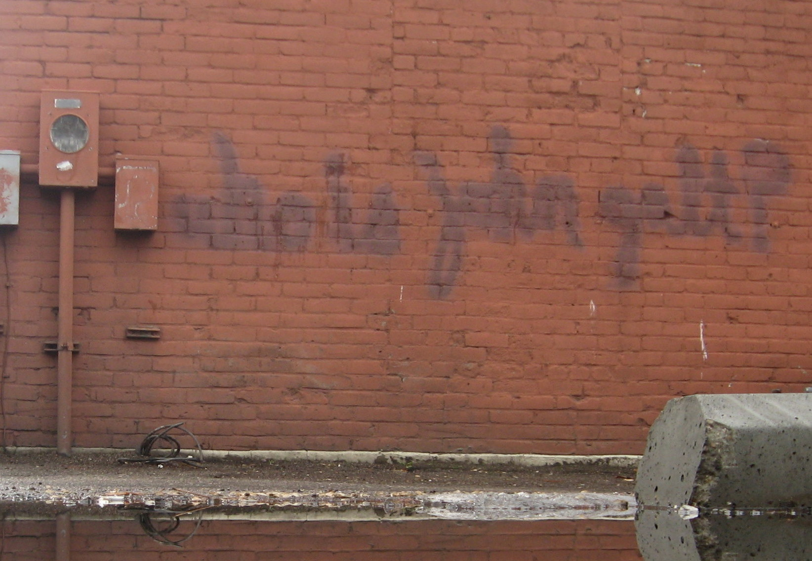 The quote; "Who is John Galt" from Ayn Rand's novel Atlas Shrugged, spray-painted onto a wall in Boise, Idaho, United States.